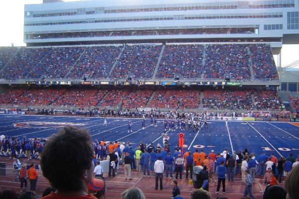 Bronco Stadium from the student section vs Hawaii in 2008